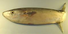 Picture of Ranzania laevis